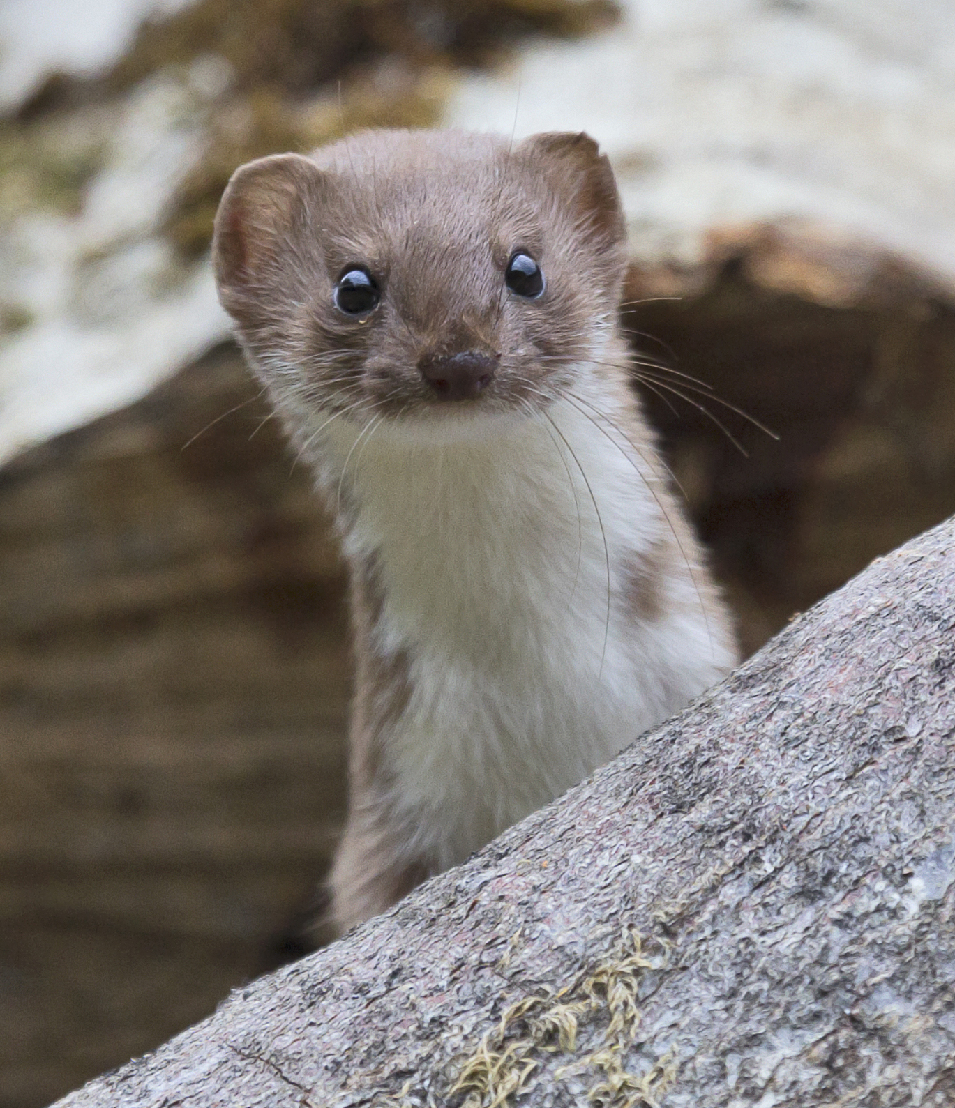 Mustela nivalis in a wood pile